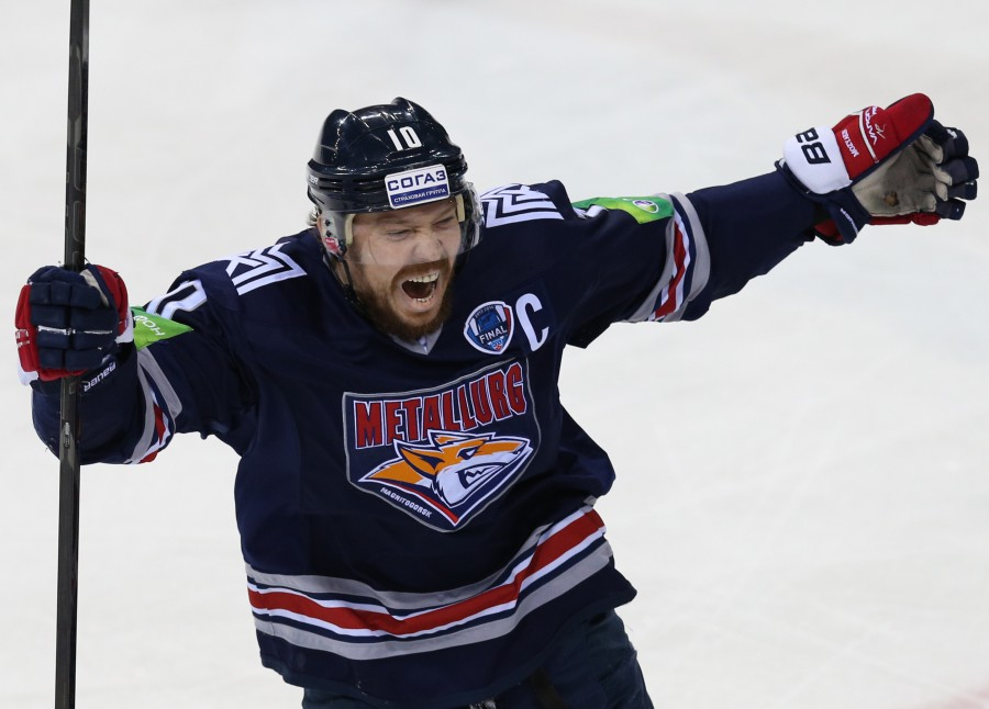 The best Hockey player in Russia